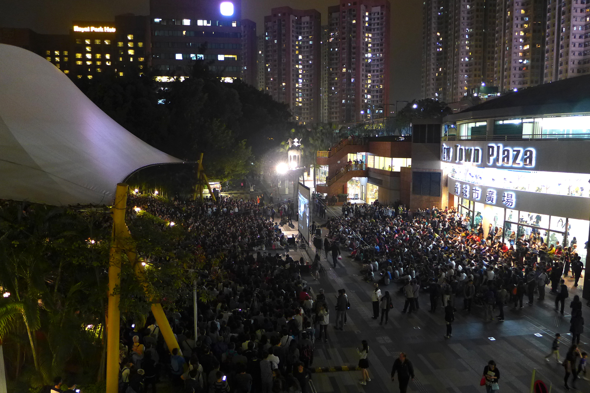 Ten Years movie screen in City Art Square